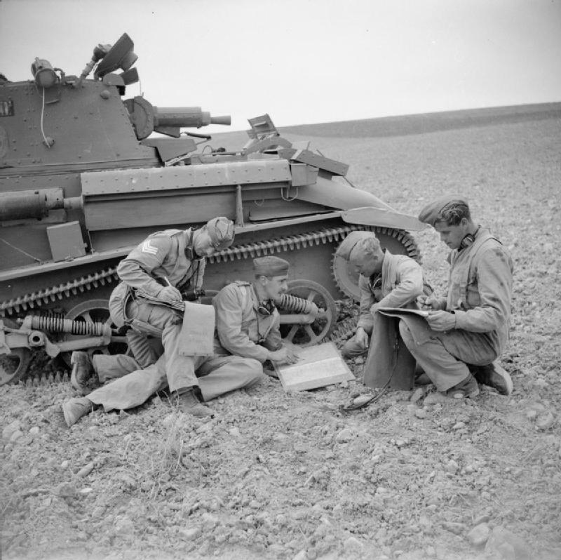 The British Army in the Middle East 1942 Light Tank Mk VI and crew in Iraq, 25 April 1942. The unit is most probably the 14th/20th Kings Hussars.